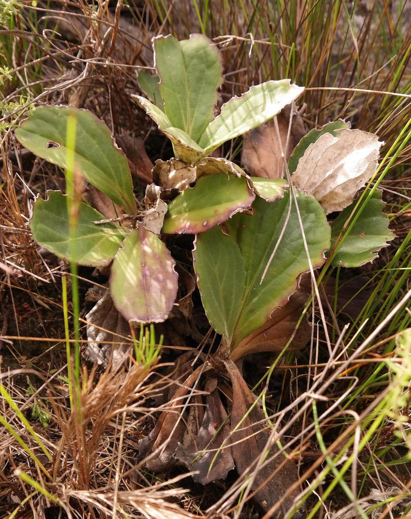 Leaf rosette of Mairia robusta, photographed by Nick Helme, on 16 March 2016, at south Boegoekloof, Kogelberg, at about 800 m altitude, Western Cape province of South Africa